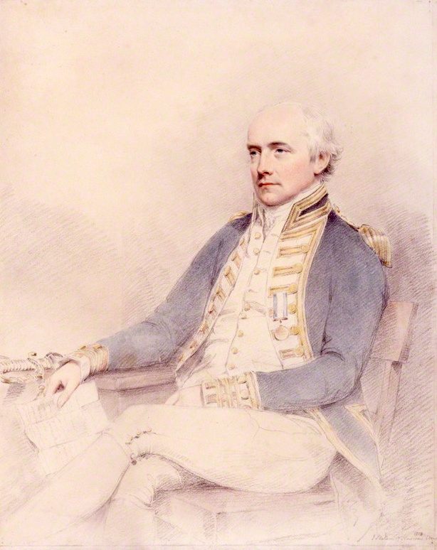 James Gambier, 1st Baron Gambier (1756-1833)